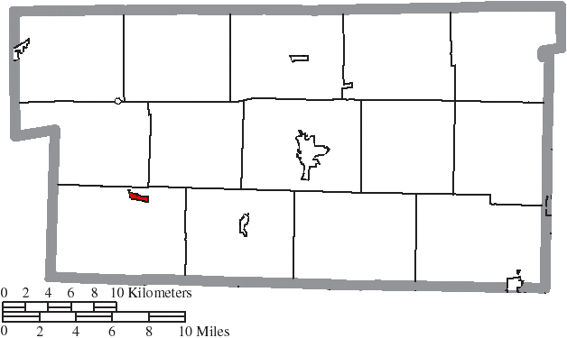 Map of the municipal and township boundaries of Holmes County, Ohio, United States, as of the 2000 census, with the location of the village of Glenmont highlighted. Township borders are shown only in unincorporated areas in order to differentiate incorporated and unincorporated areas more clearly.